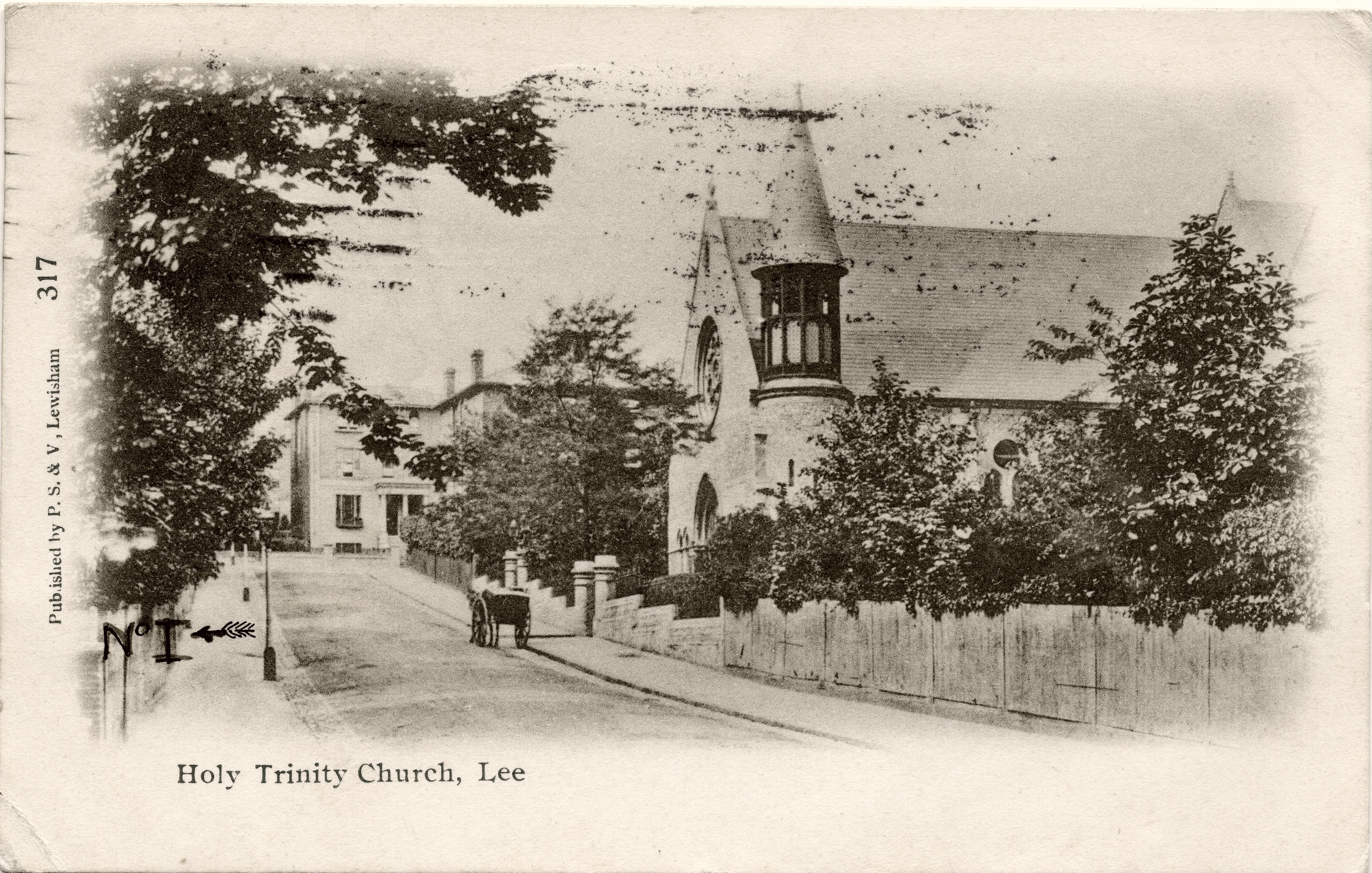 Postcard of Holy Trinity Church, Lee, London (formerly Kent), designed by William Swinden Barber in 1862-1863. Further information here